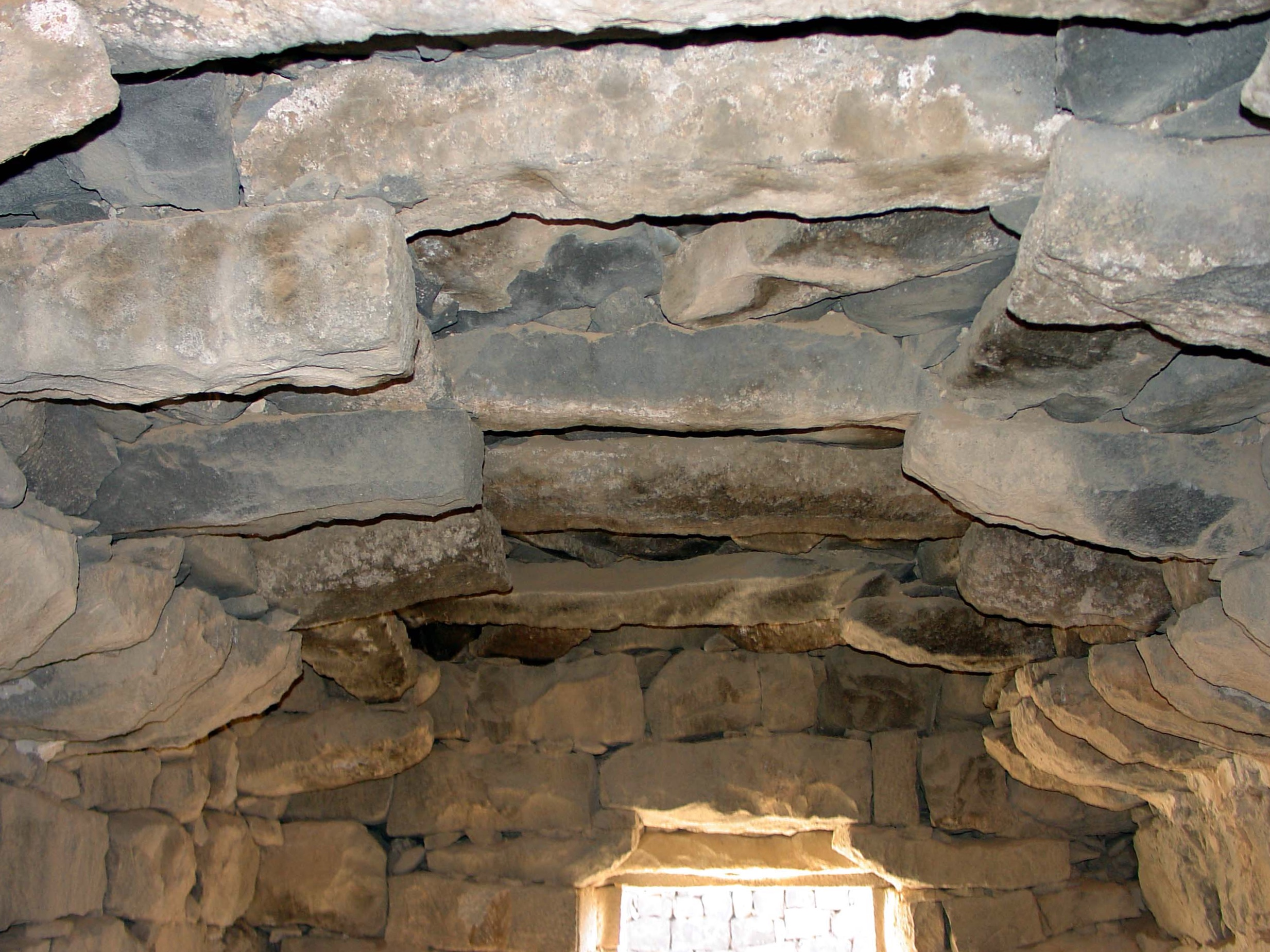 The corbeled roof is located in a small room off the church's apse.